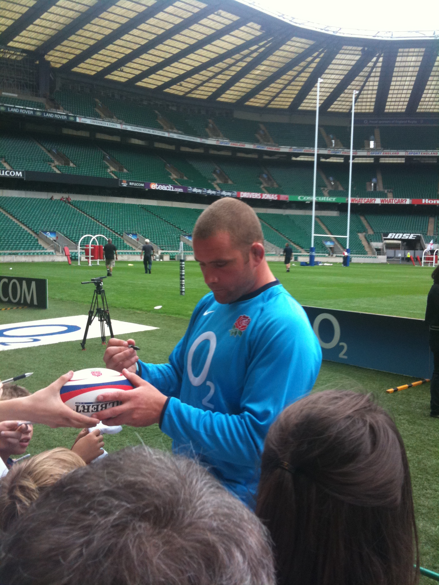 Phil Vickery à l'entraînement avec le XV de la Rose. Prise le 12 août 2009. Phil Vickery with English team training session in Twickenham stadium. 12 August 2009.